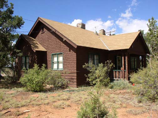 Kaibab Street Second Chief Ranger's House — in Grand Canyon Village, South Rim of the Grand Canyon, Grand Canyon National Park, Arizona. The residence is within the Grand Canyon Village Historic District, on the National Register of Historic Places in Grand Canyon National Park.